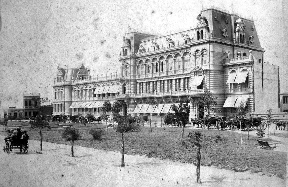 Complejo Nacional de Educación - palacio Pizzurno -, fines del siglo XIX